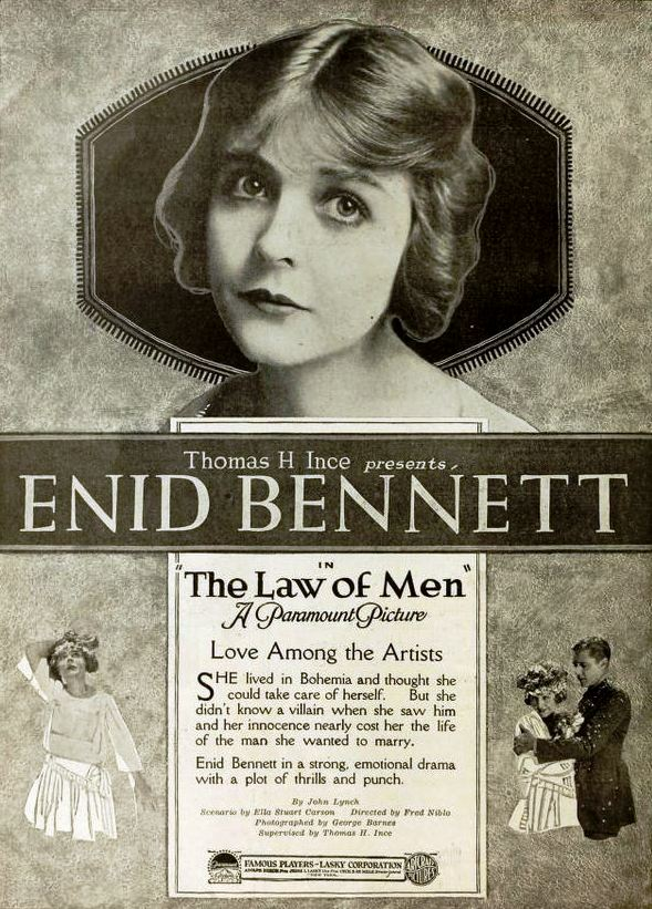 Ad for the American film The Law of Men (1919) with Enid Bennett, on page 964 of the May 17, 1919 Moving Picture World.